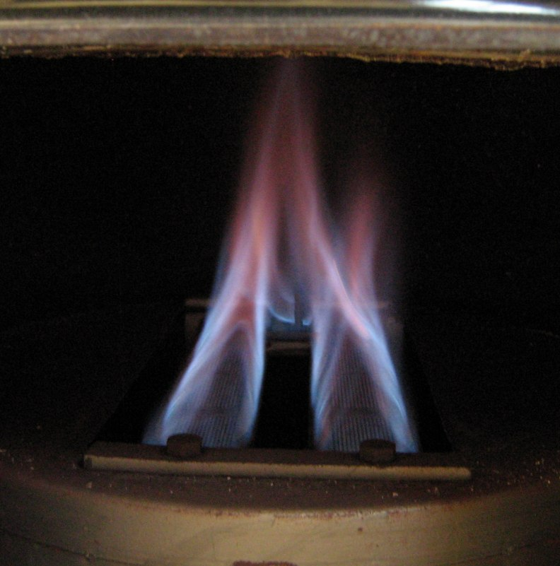 Flame of a old heating stove on gas.